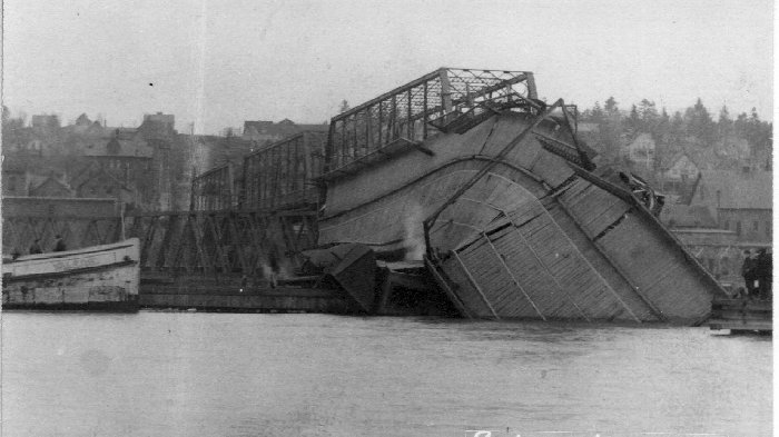 This is a photo of the Portage Canal Swing Bridge from shortly after it was struck by the Northern Wave on April 15, 1905.